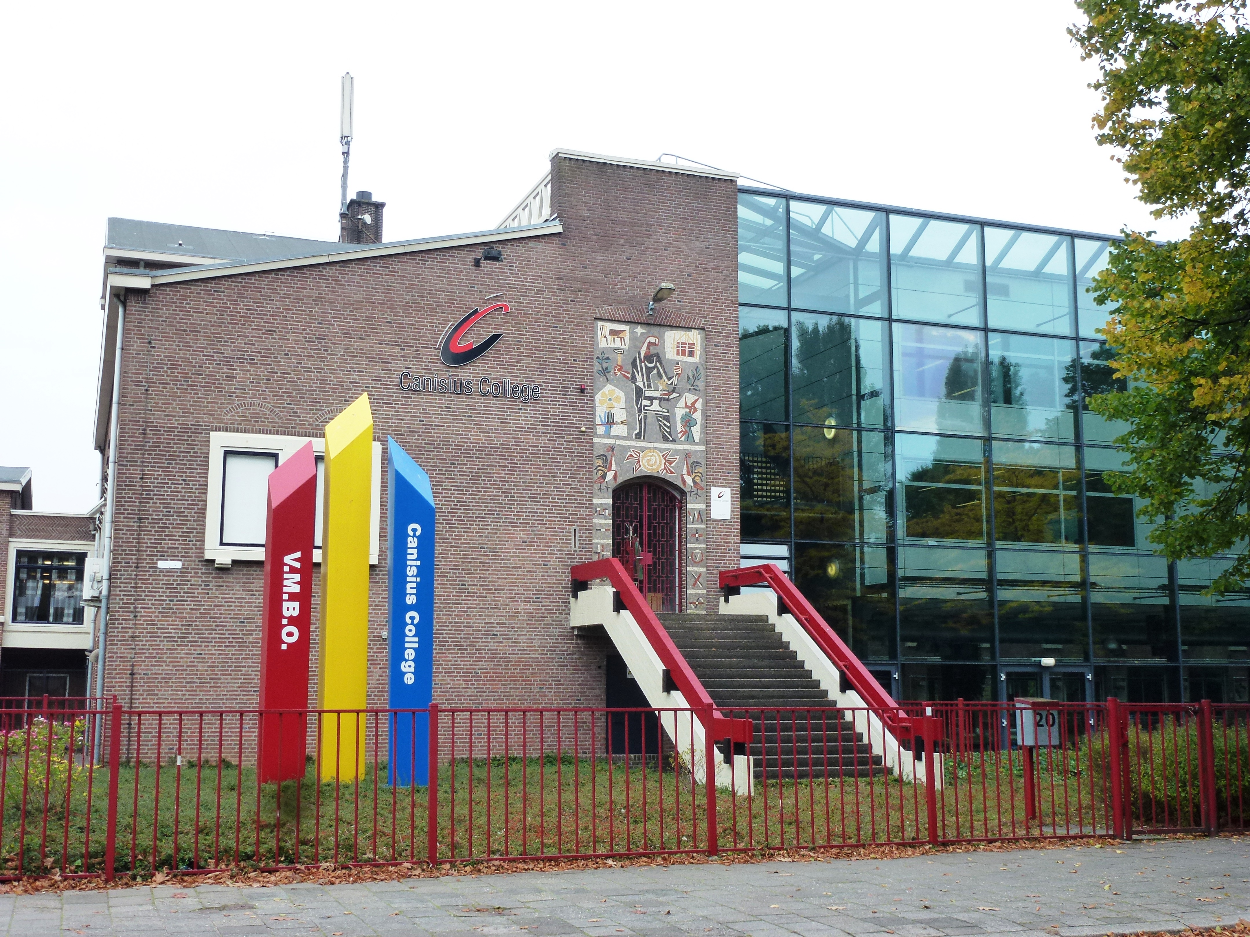 Canisiuscollege location de Goffert, Goffertweg 20, Nijmegen